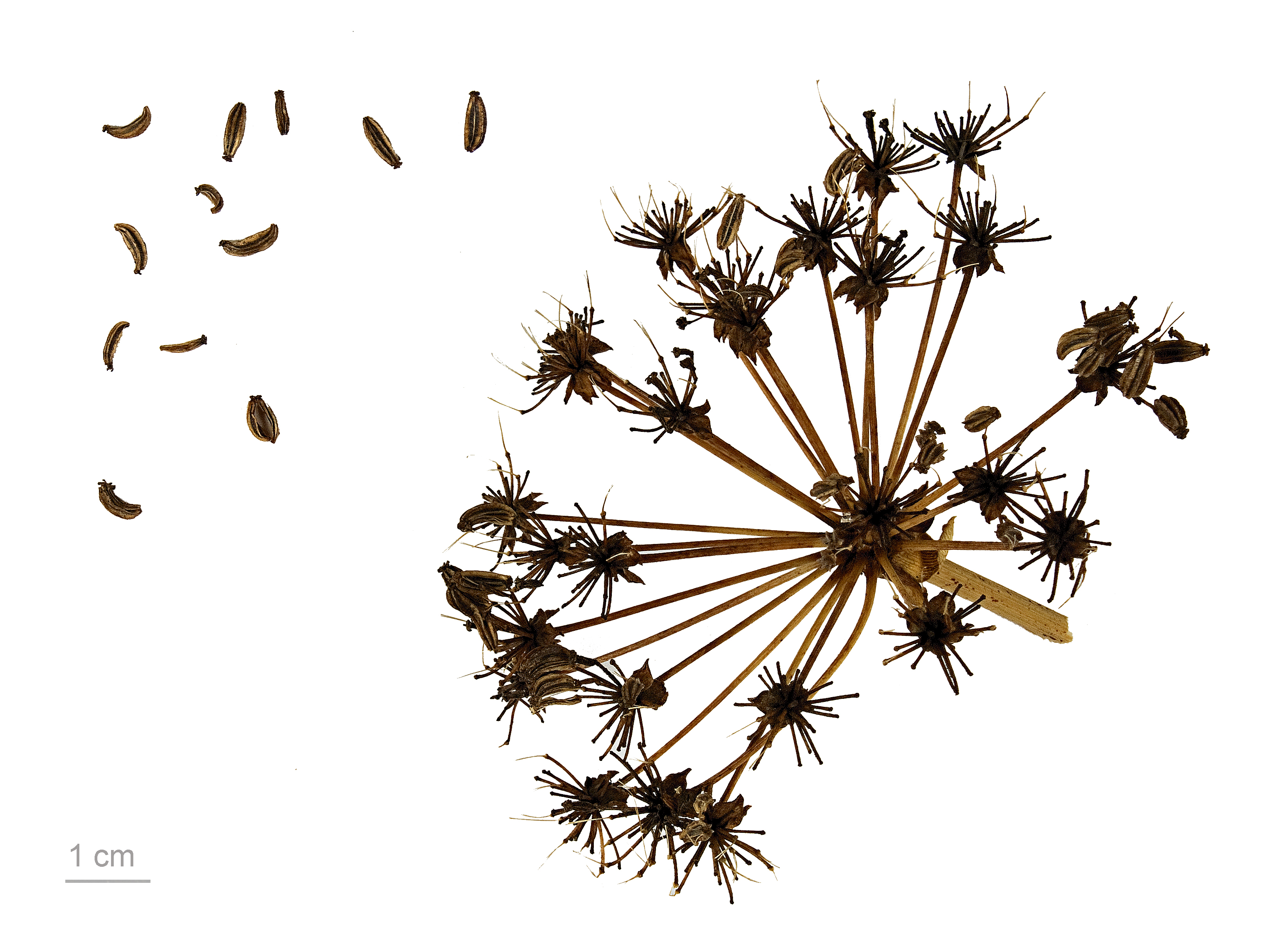 Bupleurum gibraltarium , fruits and seeds